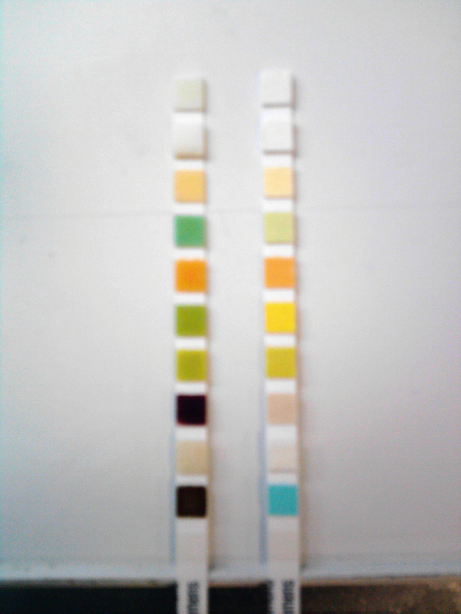 Comparision between a patological urine test (left - DBT) and a strip without reaction. From top - Leucocites0(-), nitrite (-) , urobilinogen (-), protein (+), pH (5), blood (+), specific gravity (1.025), ketones (++++), bilirrubin (+), glucose (+++)